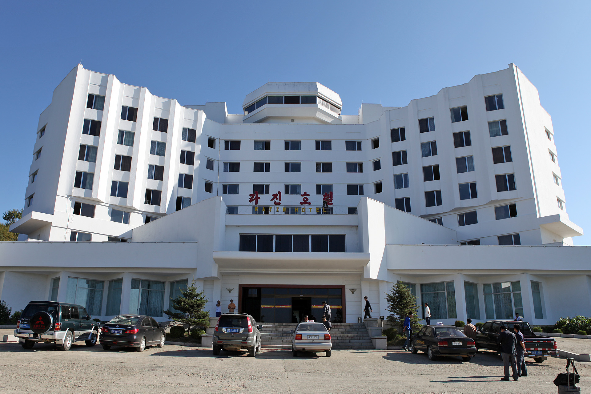 The Rajin Hotel, an international standard hotel which opened in July 1996. In the Rason Special Economic Zone